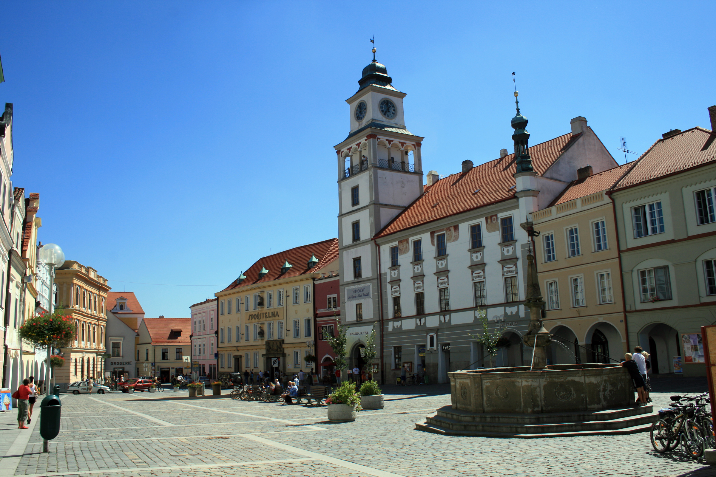 Masaryk Square in Třeboň, South Bohemia, Czech Republic